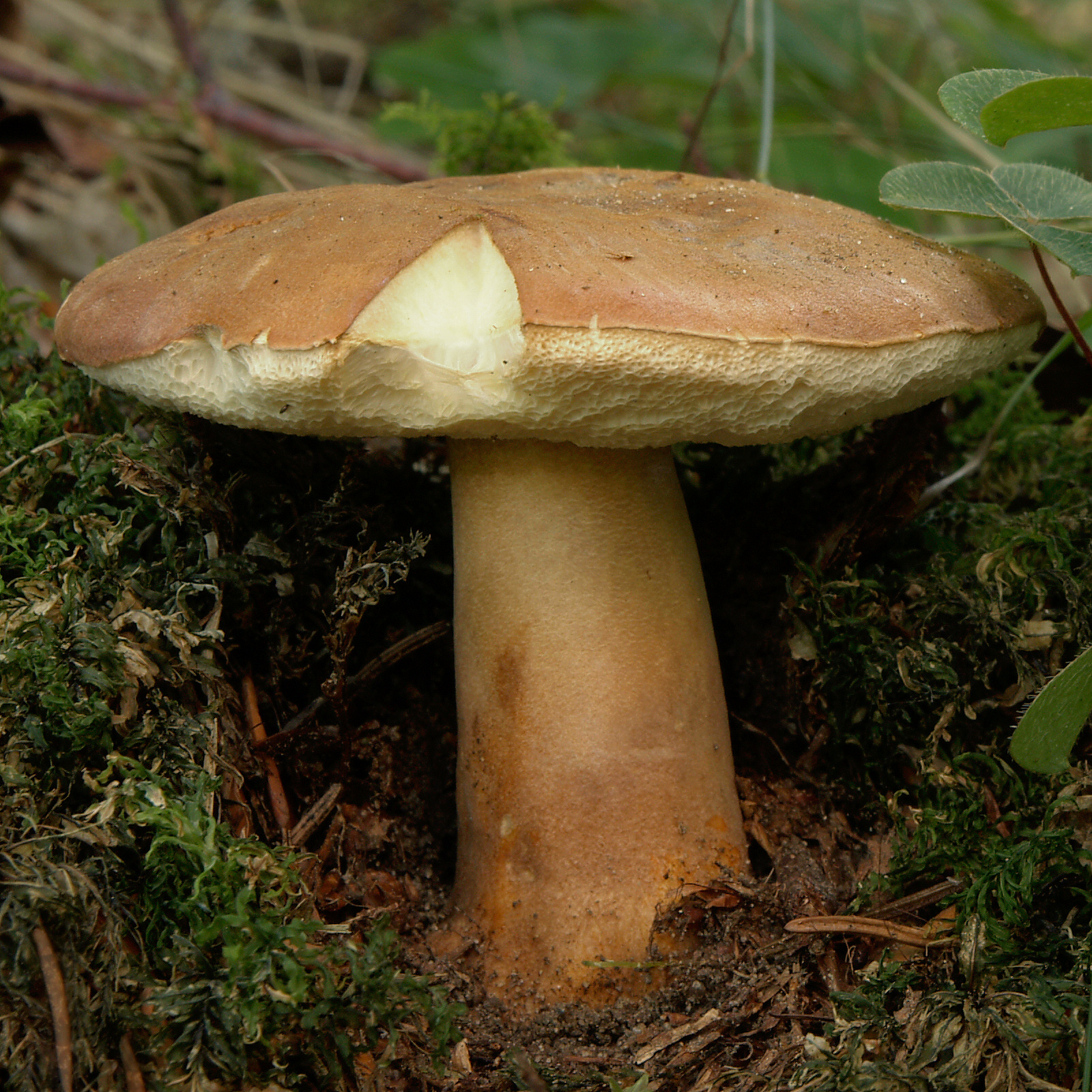 Chestnut Bolete (Gyroporus castaneus)